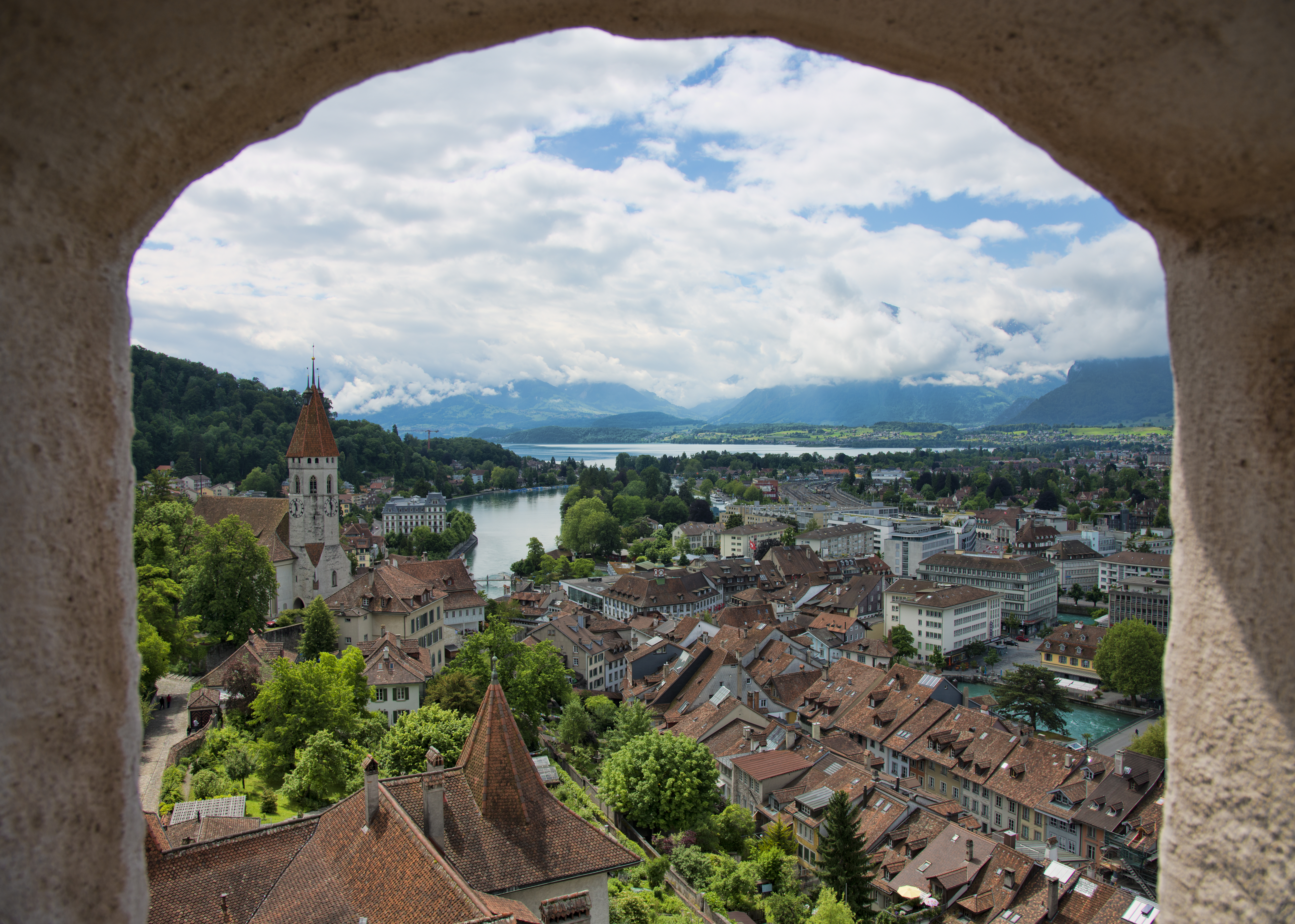 thun switzerland thun castle view 2012